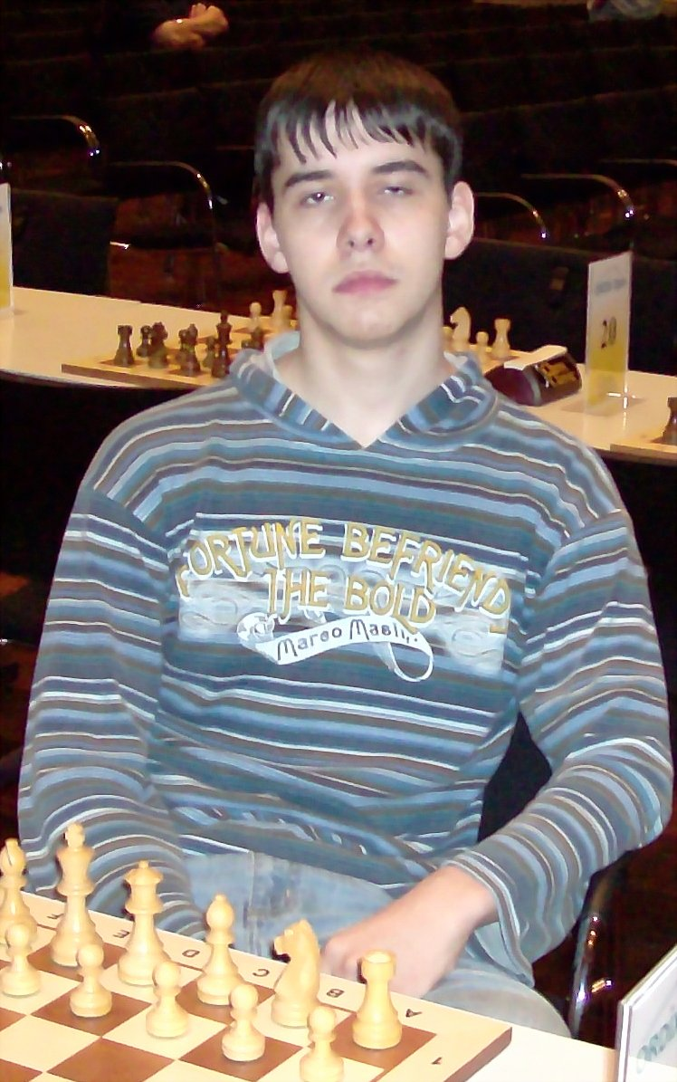 Ian Nepomniachtchi, Russian chess grandmaster